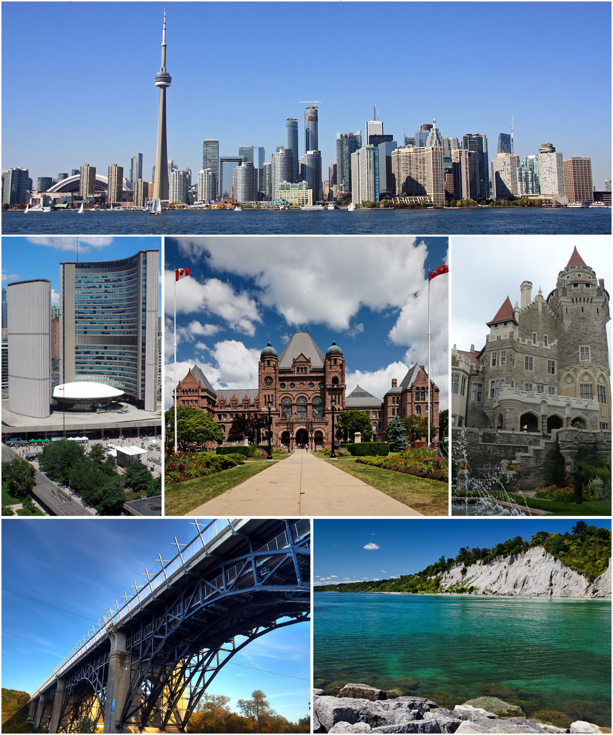 Top to bottom (left to right): (top row) Skyline of Toronto from Lake Ontario; (middle row) Toronto City Hall, Ontario Legislative Building, Casa Loma; (bottom row) Prince Edward Viaduct, Scarborough Bluffs